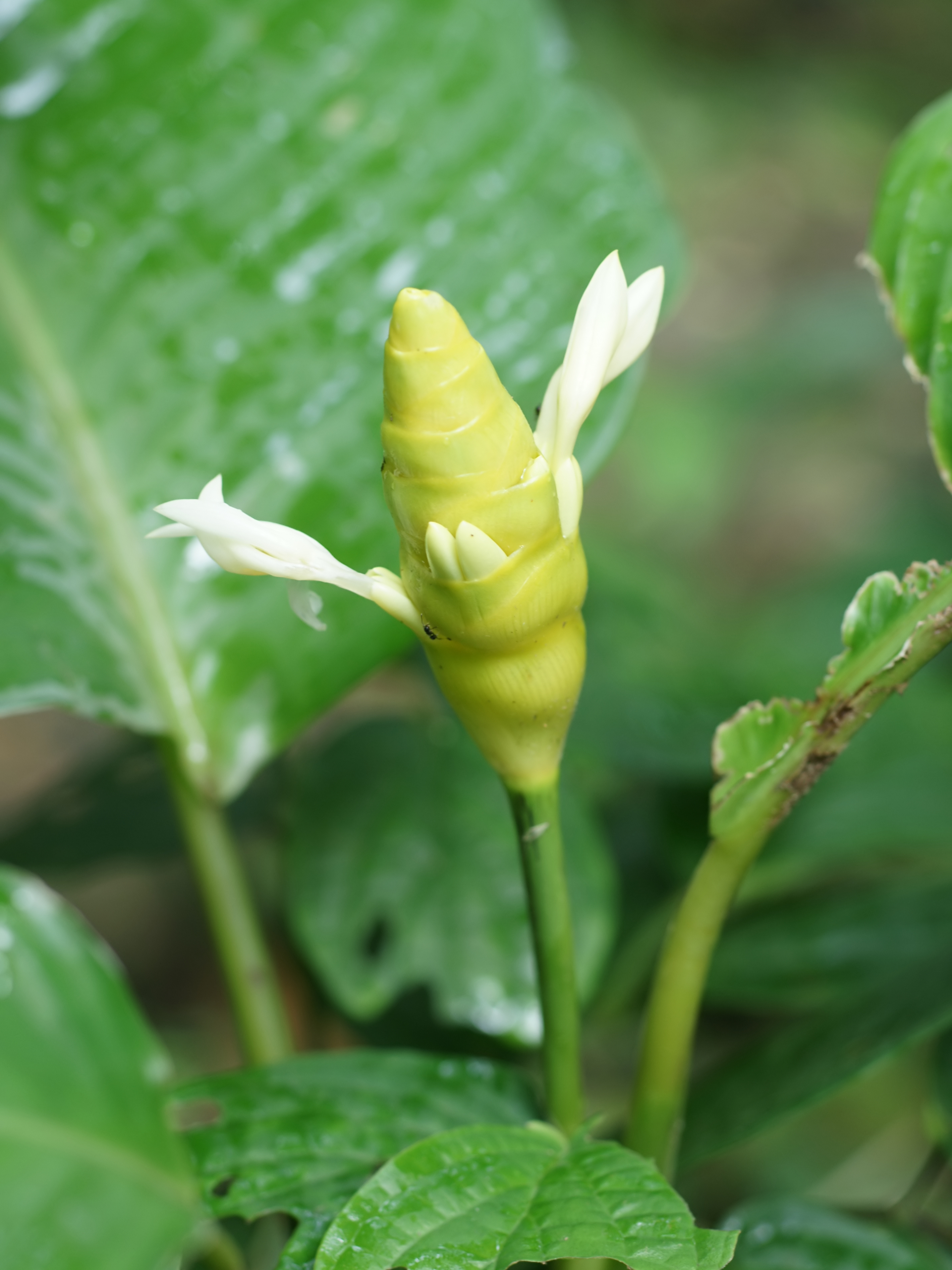 Sweet Corn Root at Puentes Colgantes near Arenal, Costa Rica.